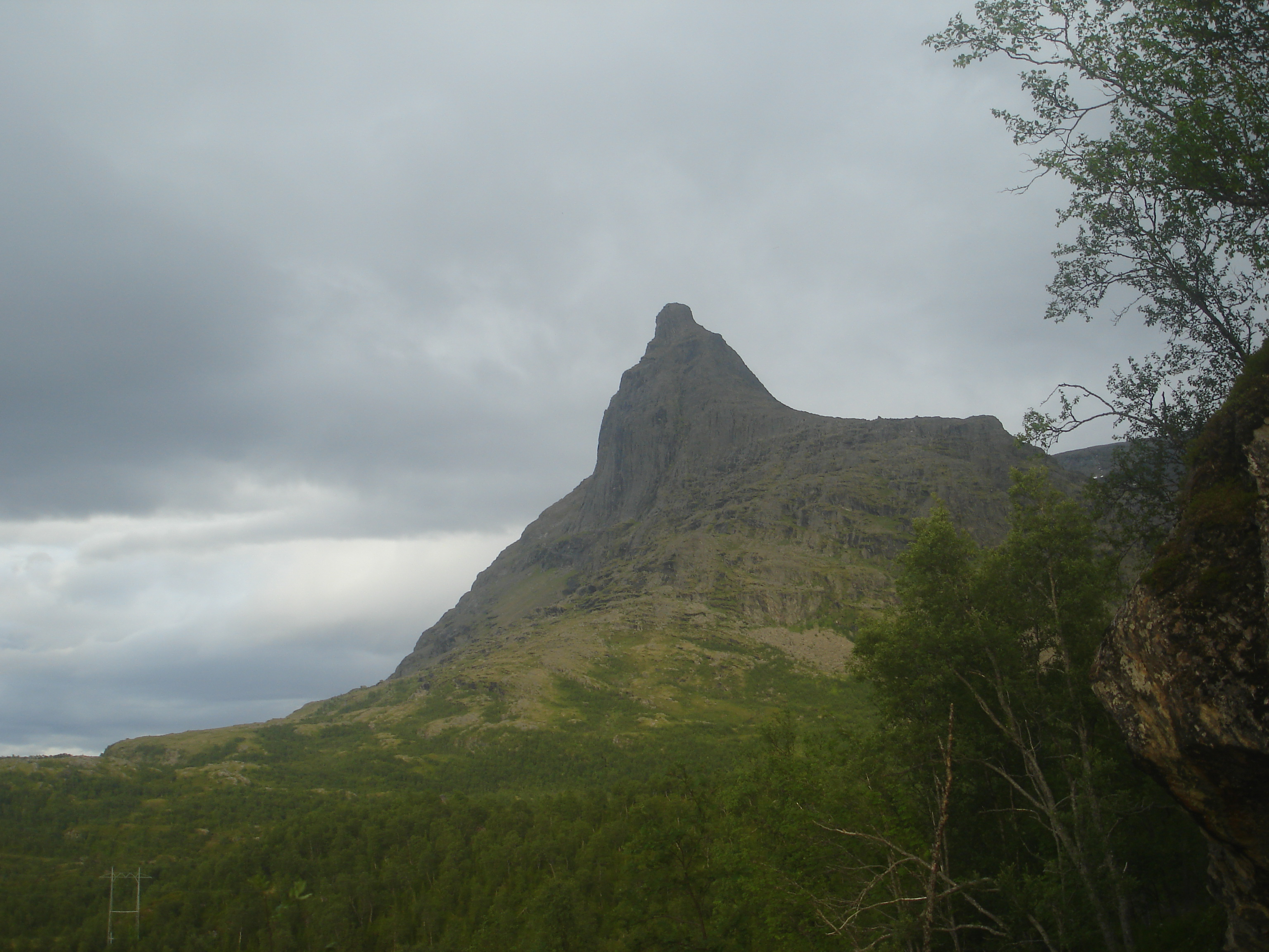 This is a picture of the montain Tøtta in Narvik, Norway.